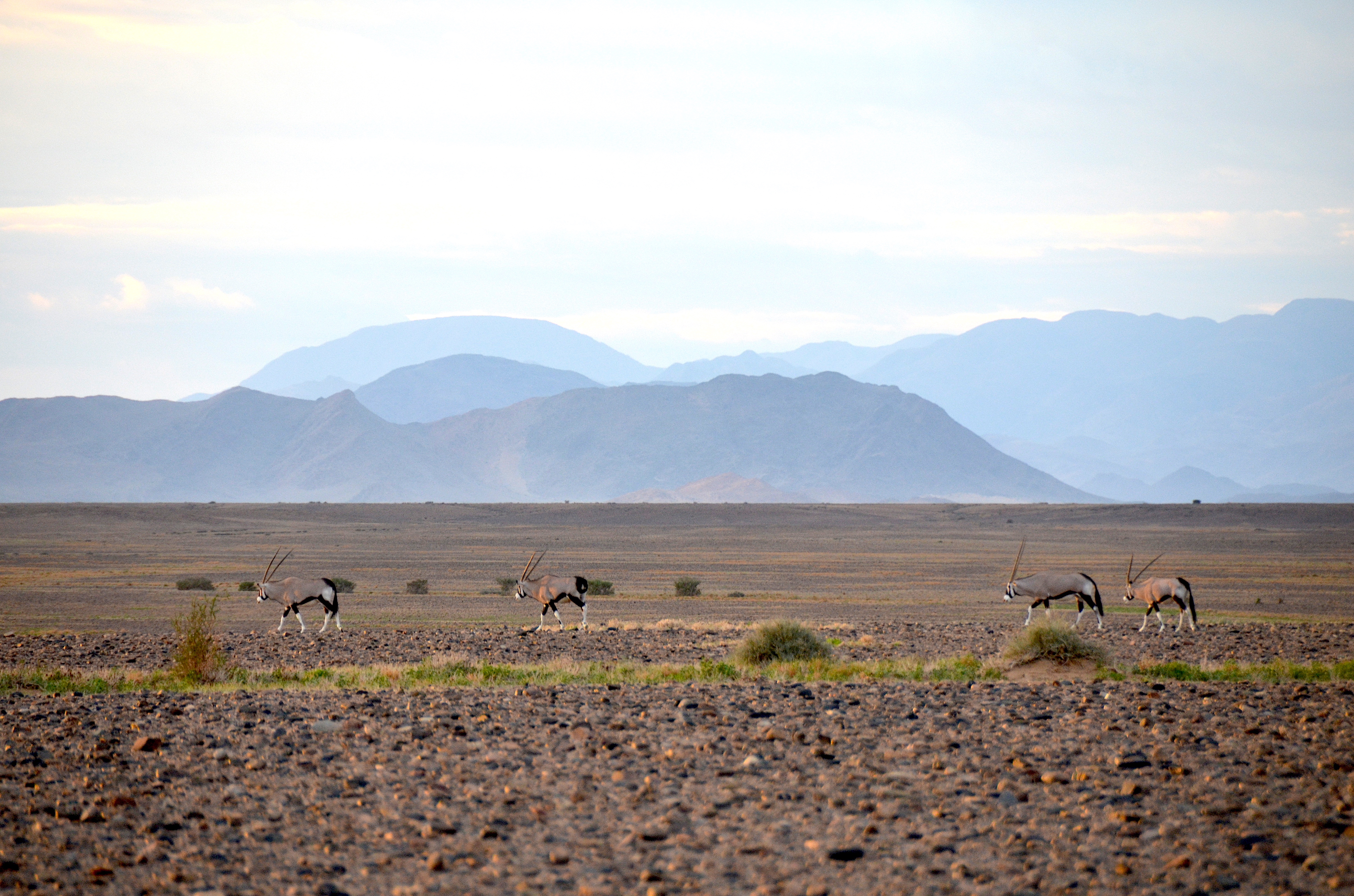 Oryx gazella in the Namib Desert (2017)